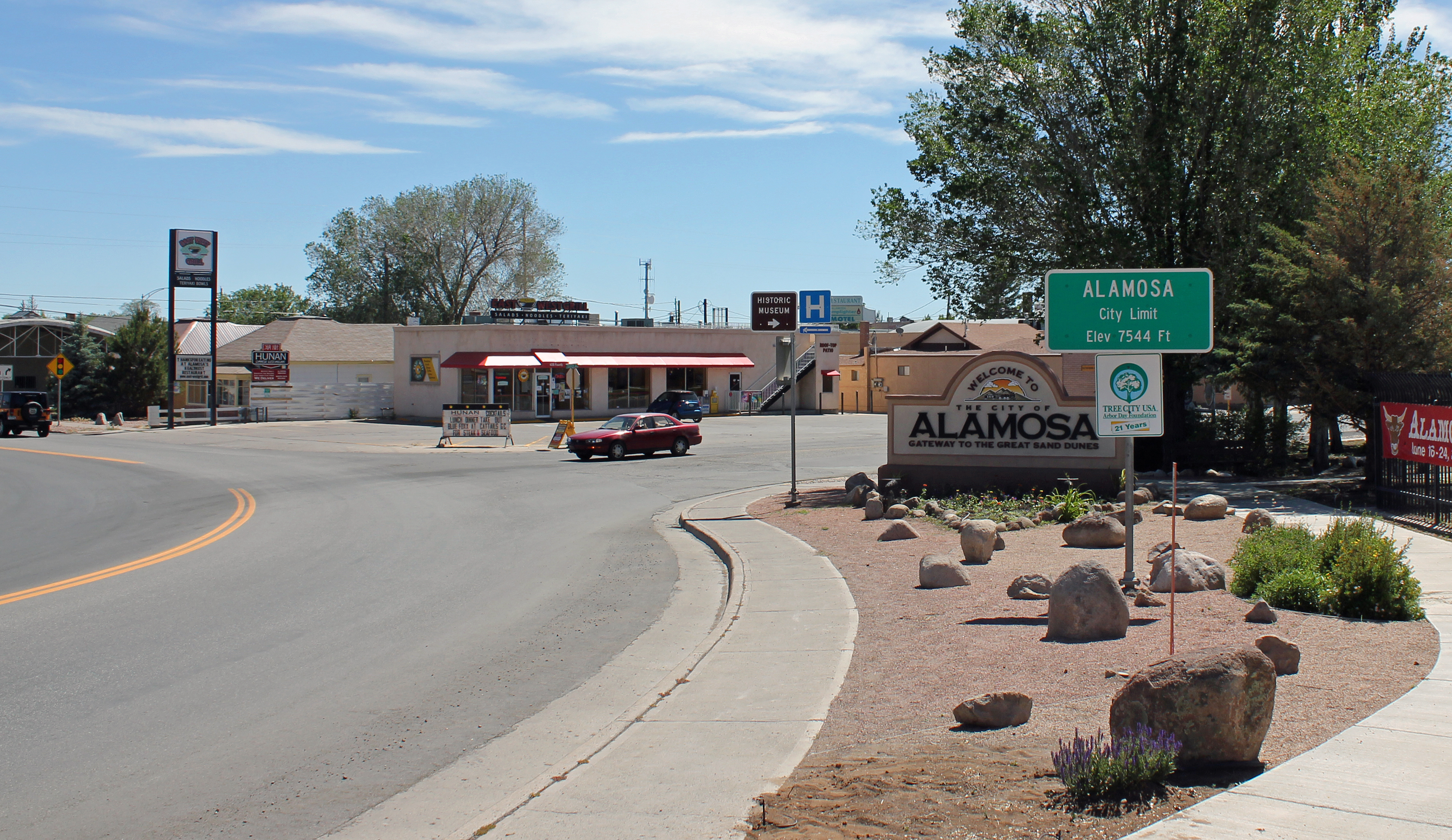 The town of Alamosa, Colorado.